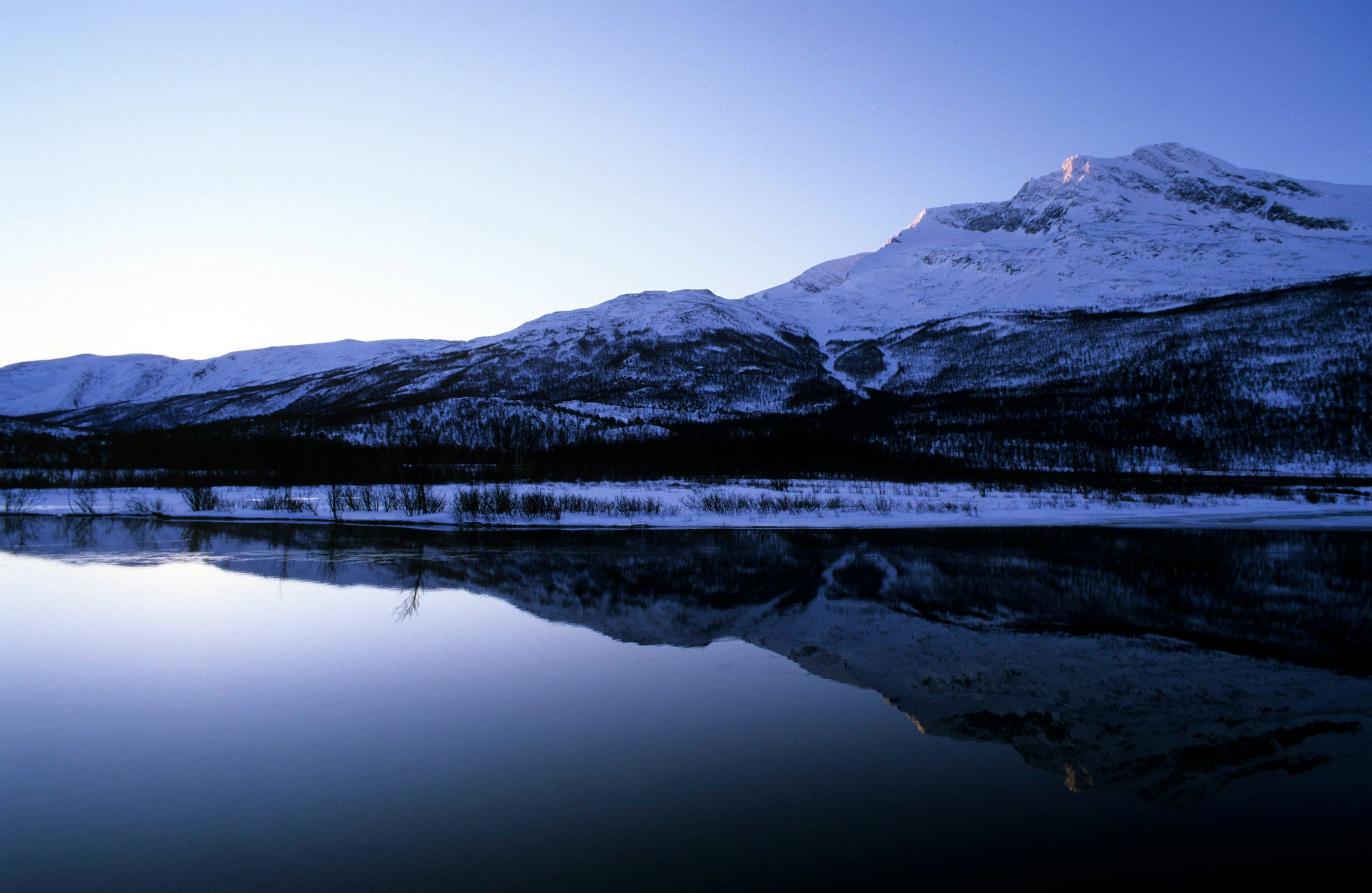 Skjomtinden in Winter, Håkvikdalen near Narvik, Norway Photo was taken using the following technique: Film: Fuji Velvia Lens: 2.0/20 Filter: none Body: Minolta Dynax 7 Support: Manfrotto 190B